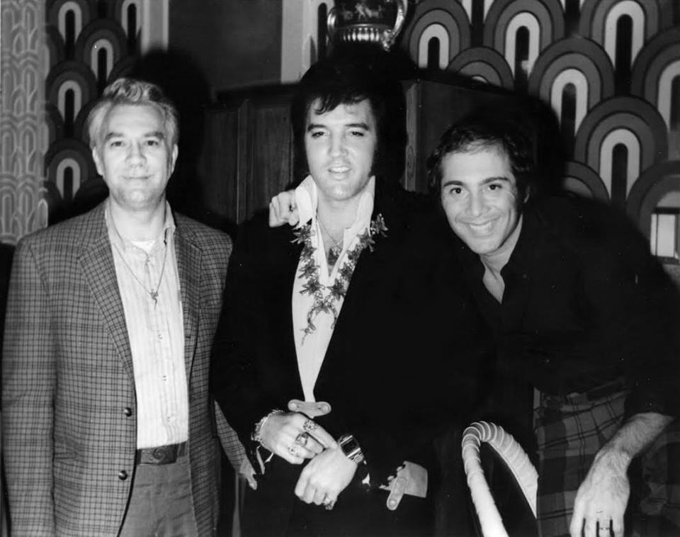 Photo of Elvis Presley with close friends and collaborators Bill Porter and Paul Anka. The photo was taken on August 5, 1972 at the Las Vegas Hilton. Bill Porter was a Nashville sound engineer who worked on many of Presley's recordings in the 1960s.